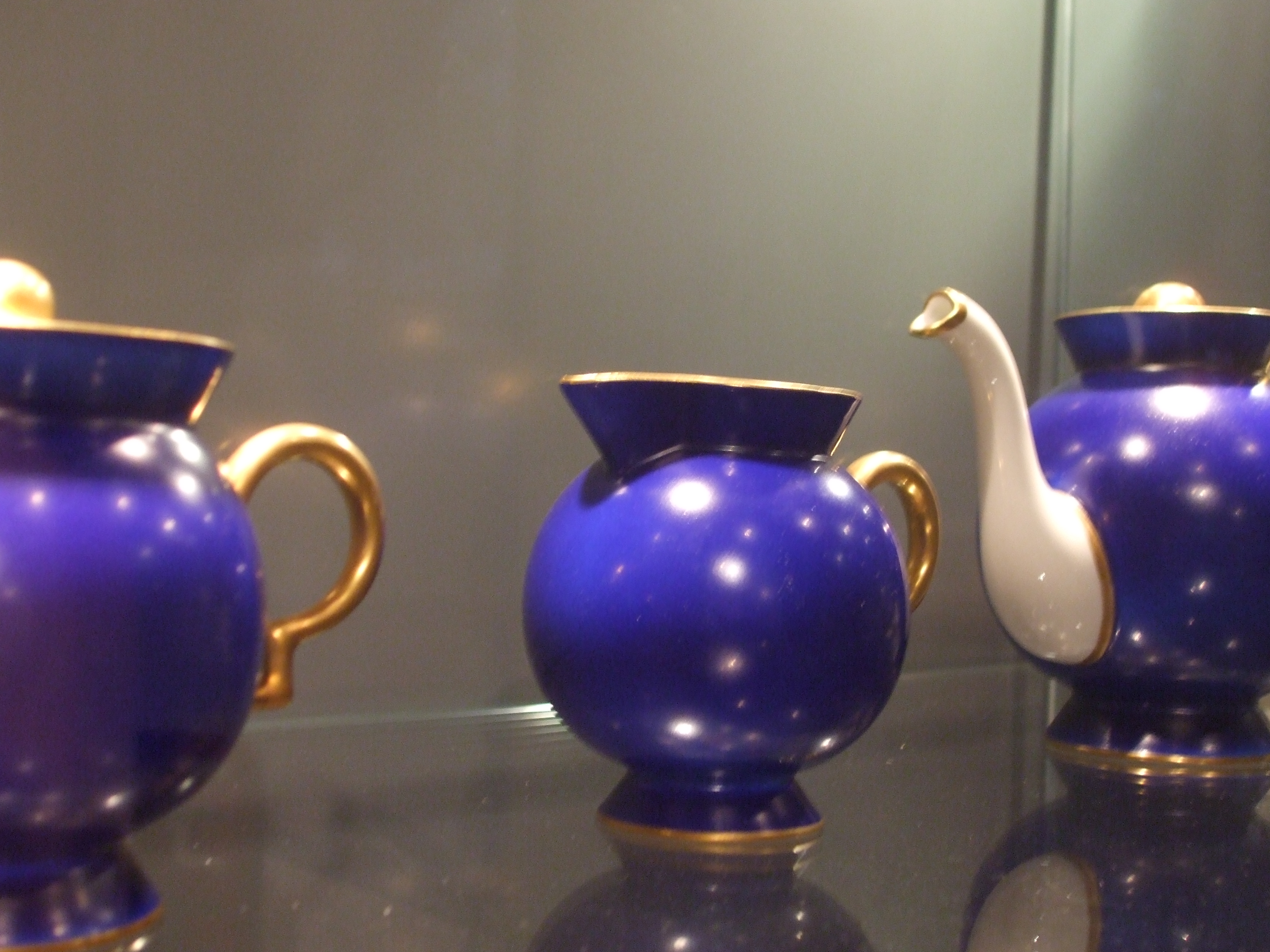 Tea set by Gio Ponti in Wolfonian museum in Genoa.Nervi, Italy